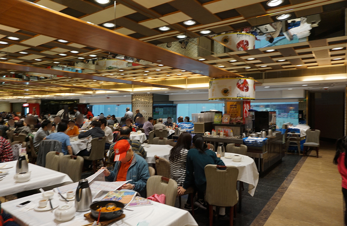 Tao Heung in Windsor House, Causeway Bay, Hong Kong.